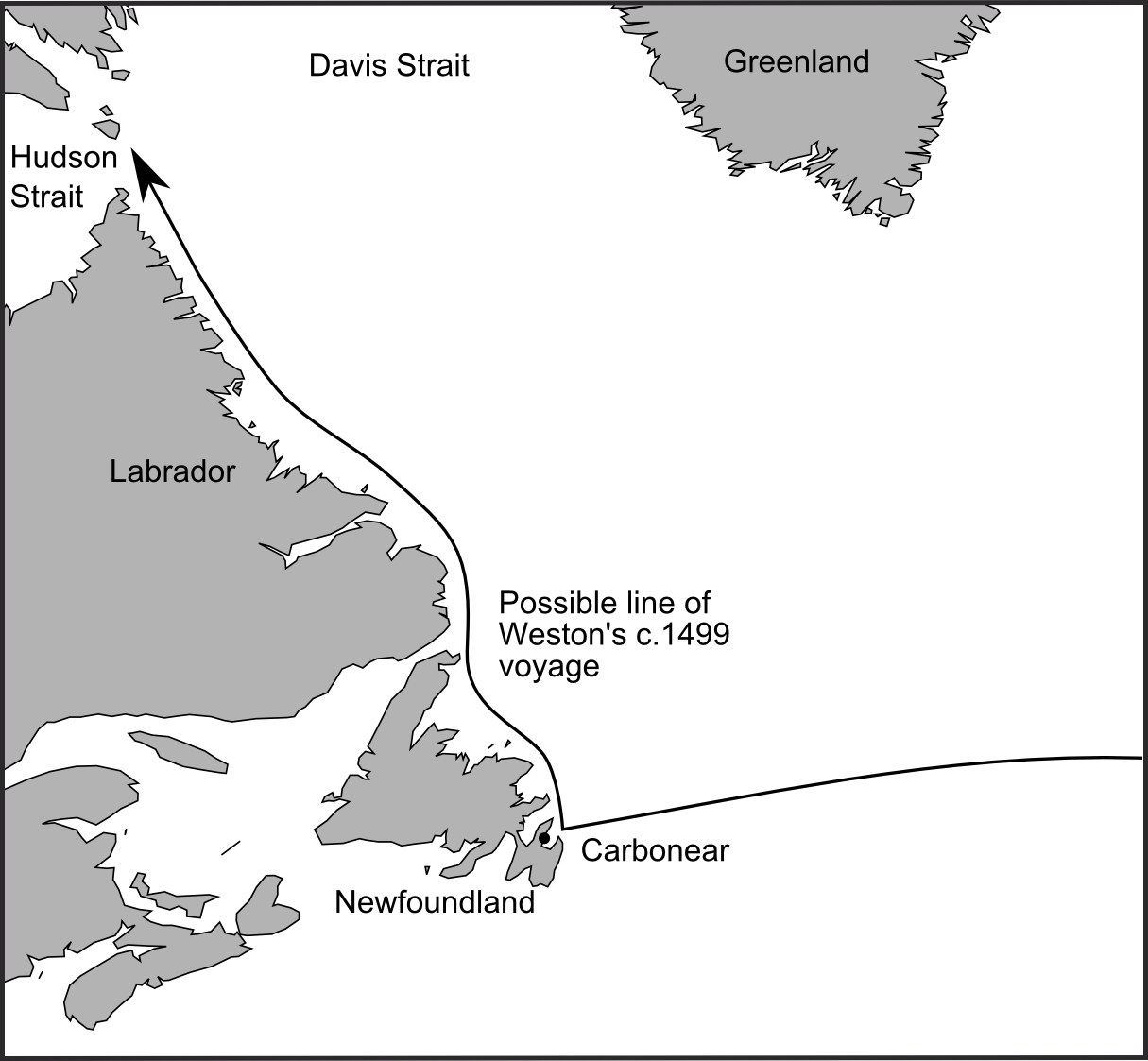 Course of William Weston's c.1499 exploration voyage from Bristol to North America, based on the apparent findings of Dr Alywn Ruddock. Evan T. Jones and Margaret M. Condon, Cabot and Bristol's Age of Discovery: The Bristol Discovery Voyages 1480-1508 (University of Bristol, Nov. 2016), fig. 11, p. 58.